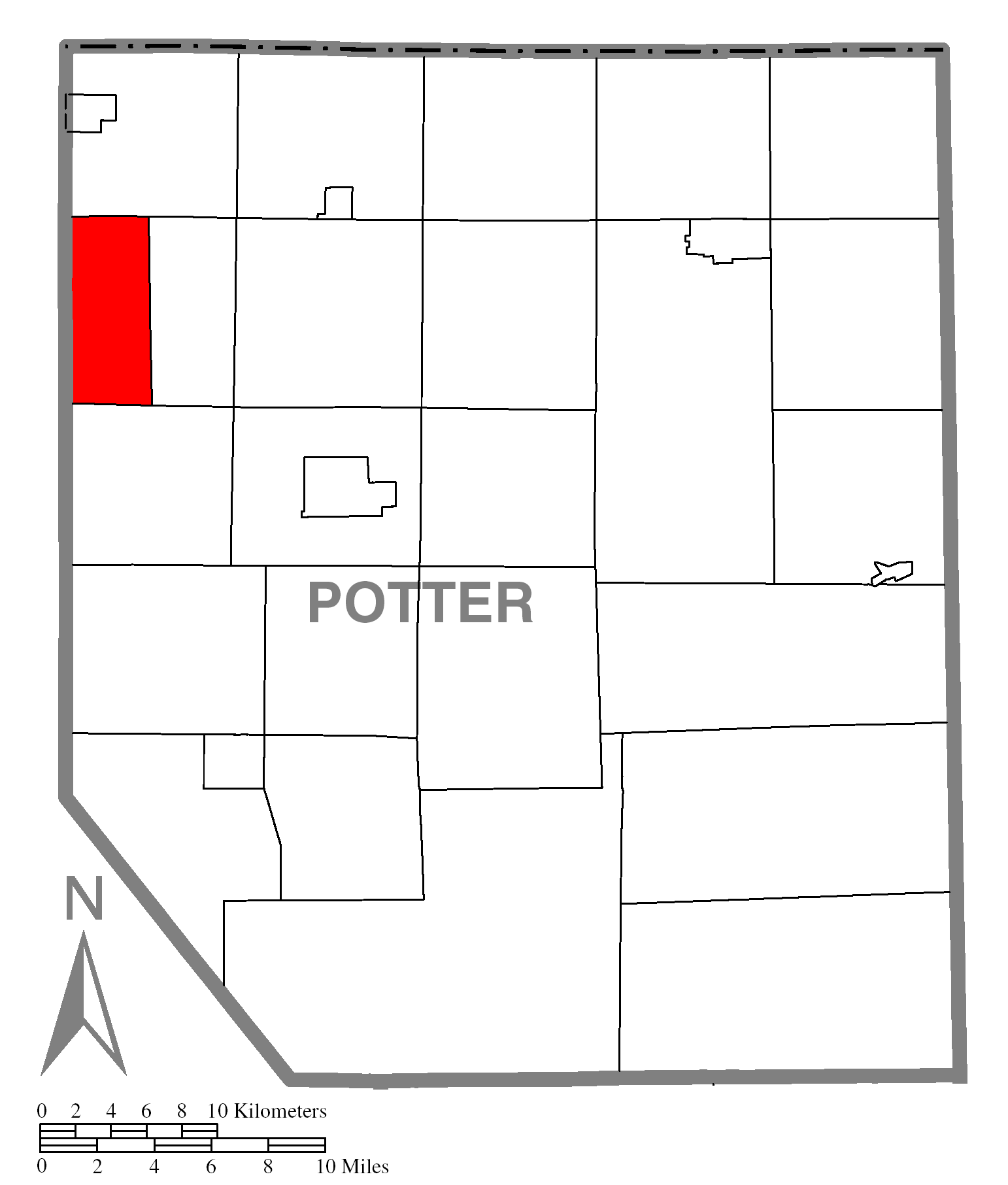 A map of Potter County showing Pleasant Valley Township, Pennsylvania (alternate) highlighted on the map.